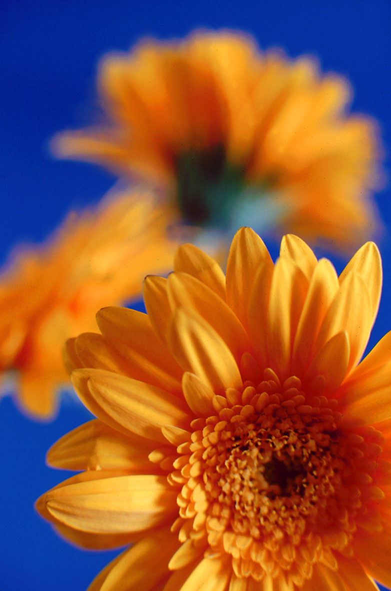 Gerbera